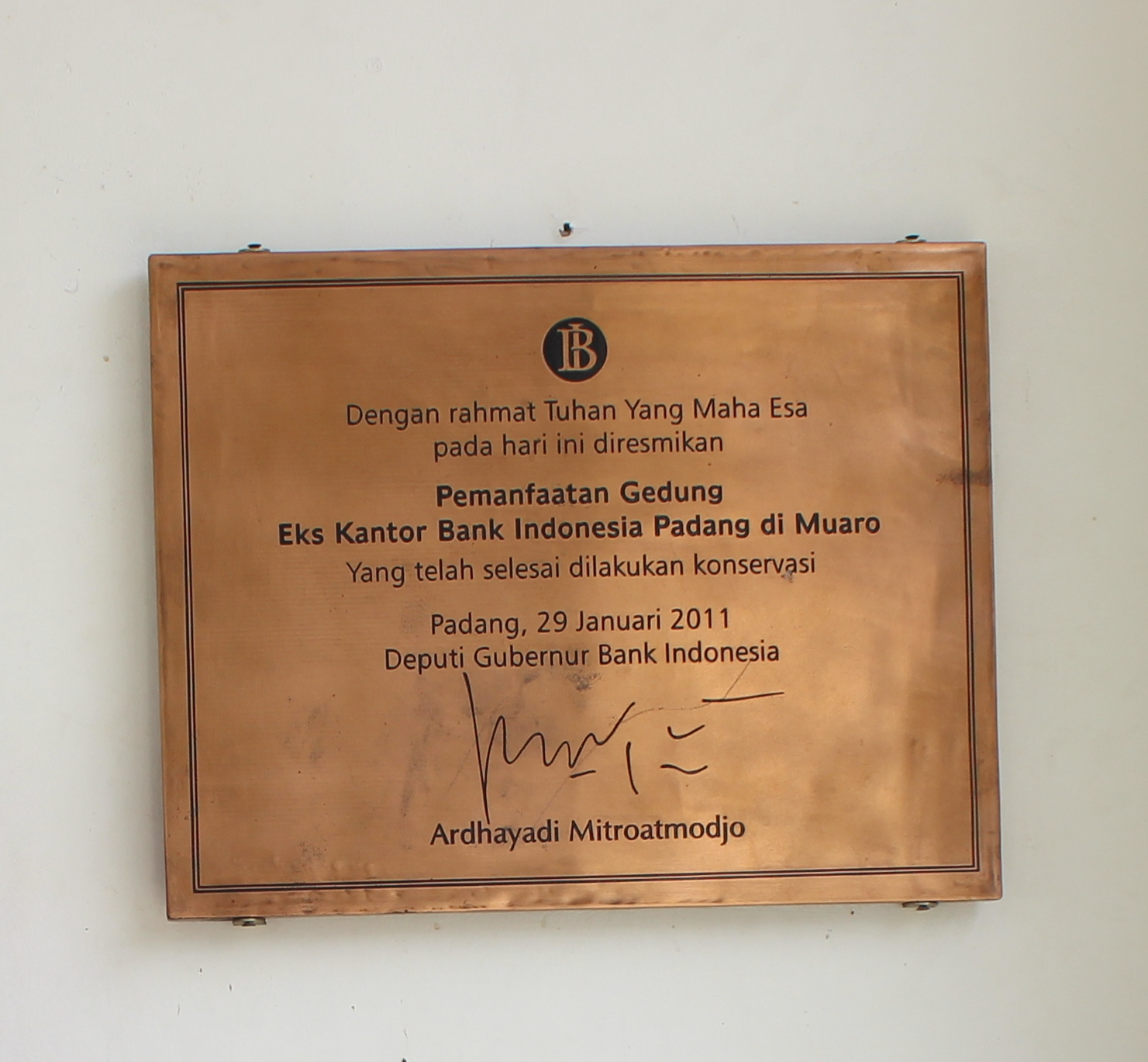 The plaque at old De Javasche Bank building in Padang, signed by deputy governor of Bank Indonesia after it's restoration in December 2011.